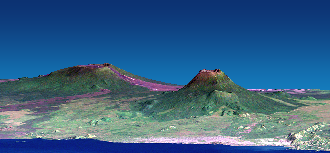 Depiction of the Nyiragongo and Nyamuragira volcanoes, based on data from the Shuttle Radar Topography Mission and Landsat. Vertical scale exaggerated (1.5x).